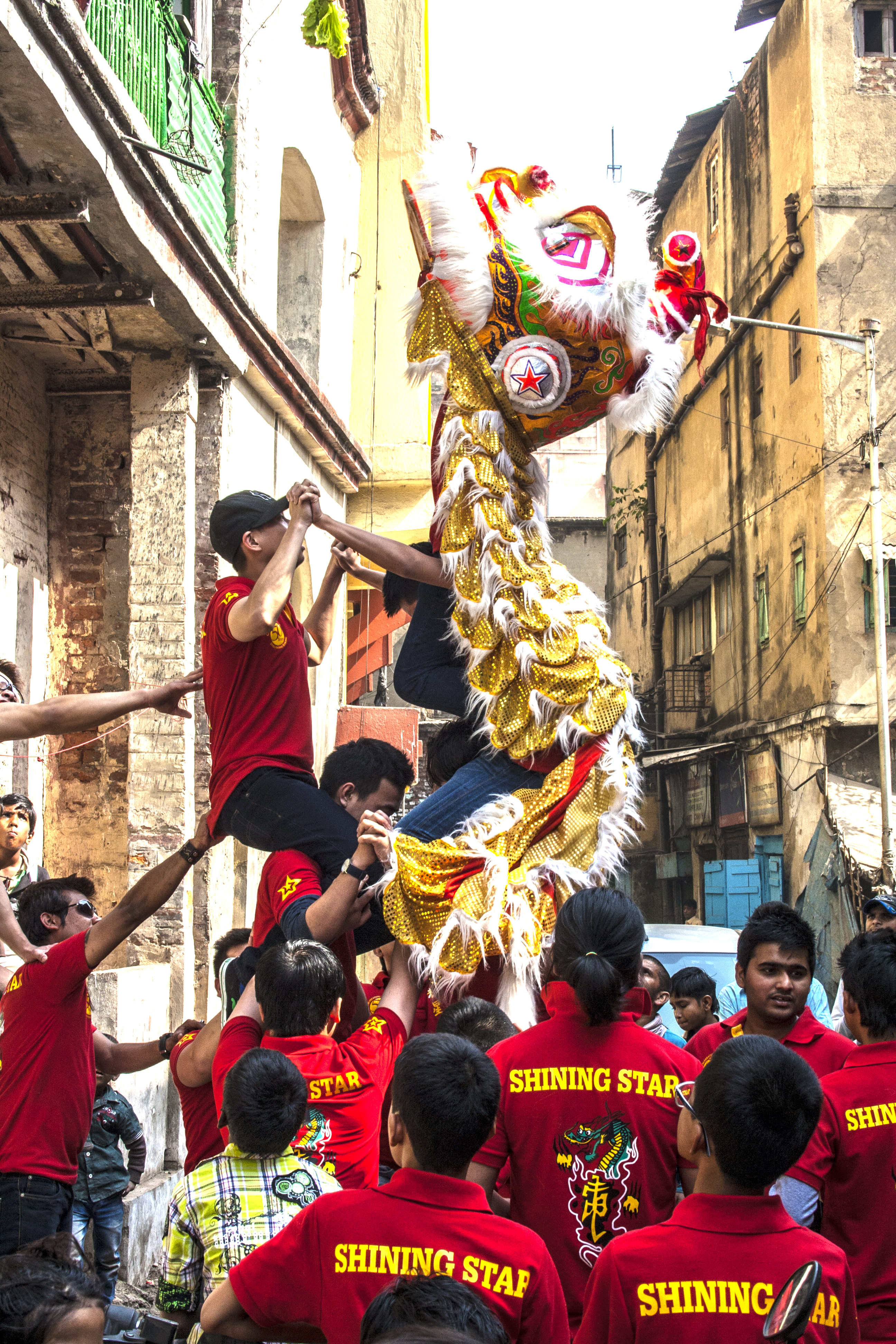 Dragon Collecting Money during Chinese New Year 2014 celebration in Kolkata Old china town area.